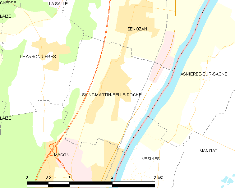 Map of French municipality